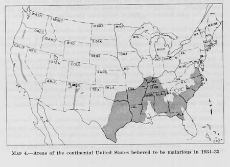 Map 4 - Areas of the continental United States believed to be malarious in 1934-35. From: Medical Department, United States Army (Editor in Chief: Colonel John Boyd Coates, Jr., MC, USA; Editor for Preventive Medicine: Ebbe Curtis Hoff, Ph. D., M.D.), Preventive Medicine in World War II (Volume VI, Communicable Diseases: Malaria); Series: Medical Department United States Army in World War II; Office of the Surgeon General, Department of the Army, Washington, D.C., 1963.